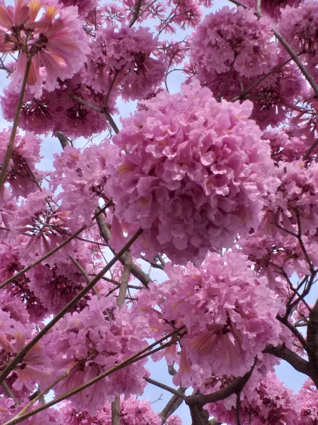 Tabebuia rosea, inflorescence. Taichung, Calligraphy Greenway. Taiwan.